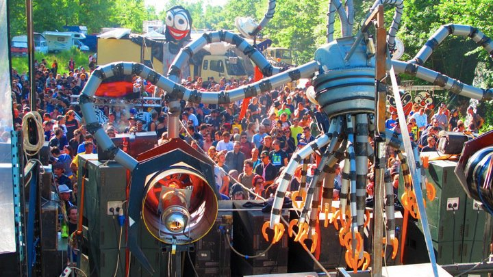 A free party in italy